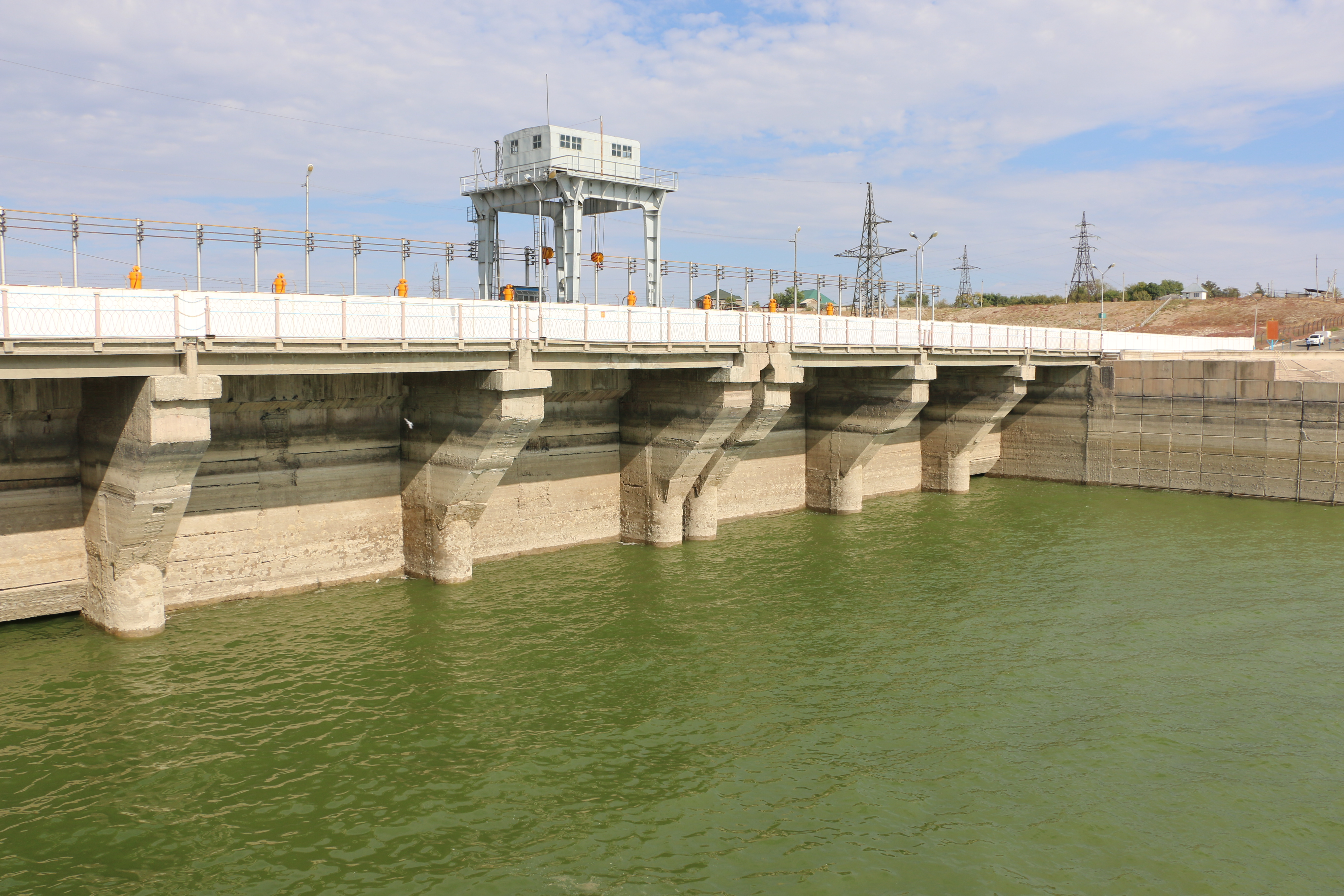 Shardara Hydroelectric Power Station